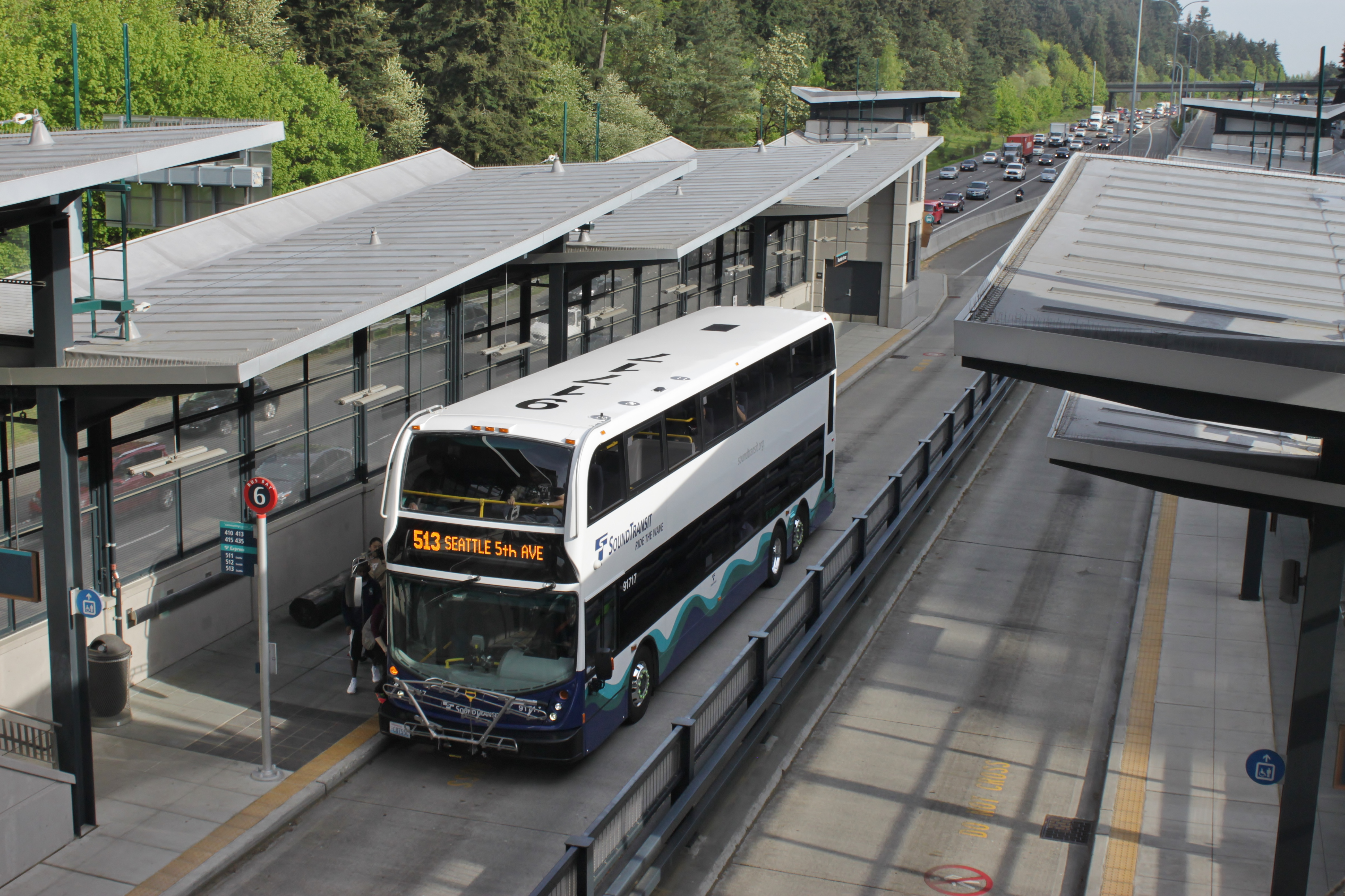 A double-decker Sound Transit Express bus on Route 513, seen at Mountlake Terrace Transit Center's freeway median stops.